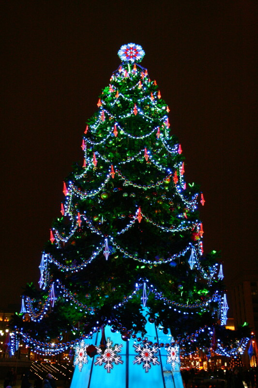 Christmas tree on the Red Aquare in Moscow in 2007-2008 New Year's celebration.